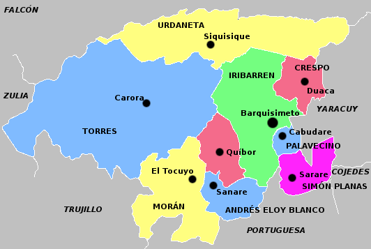 State Lara, Venezuela